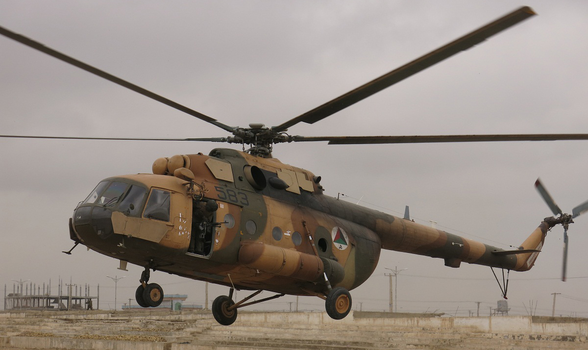 MI-17 helicopter of the Afghan Air Force during a military exercise for 2014 presidential election in Afghanistan.